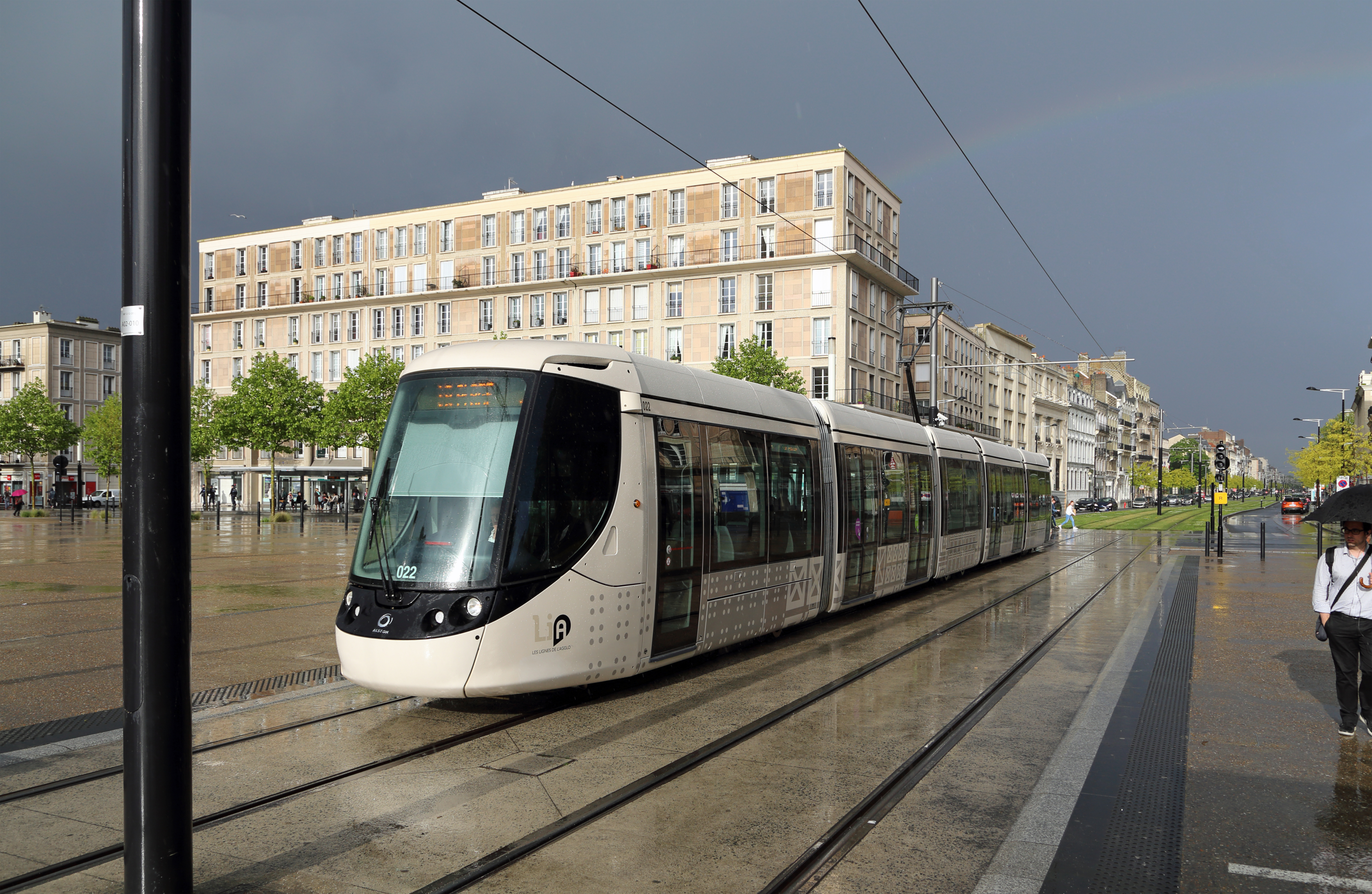 Le Havre (France): a Alstom Citadis 302 tram (vehicle number 22) coming from the Boulevard de Strasbourg